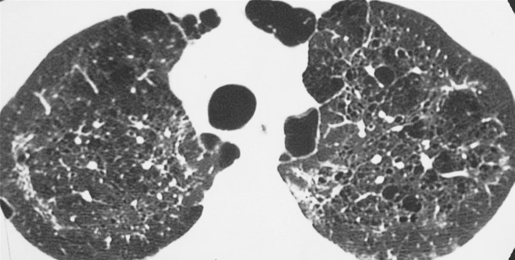 Pneumocystis pneumonia: Lung cysts are usually multiple and bilateral, but range in size, shape and distribution. They are more commonly appreciated on computed tomography (CT)/high-resolution CT